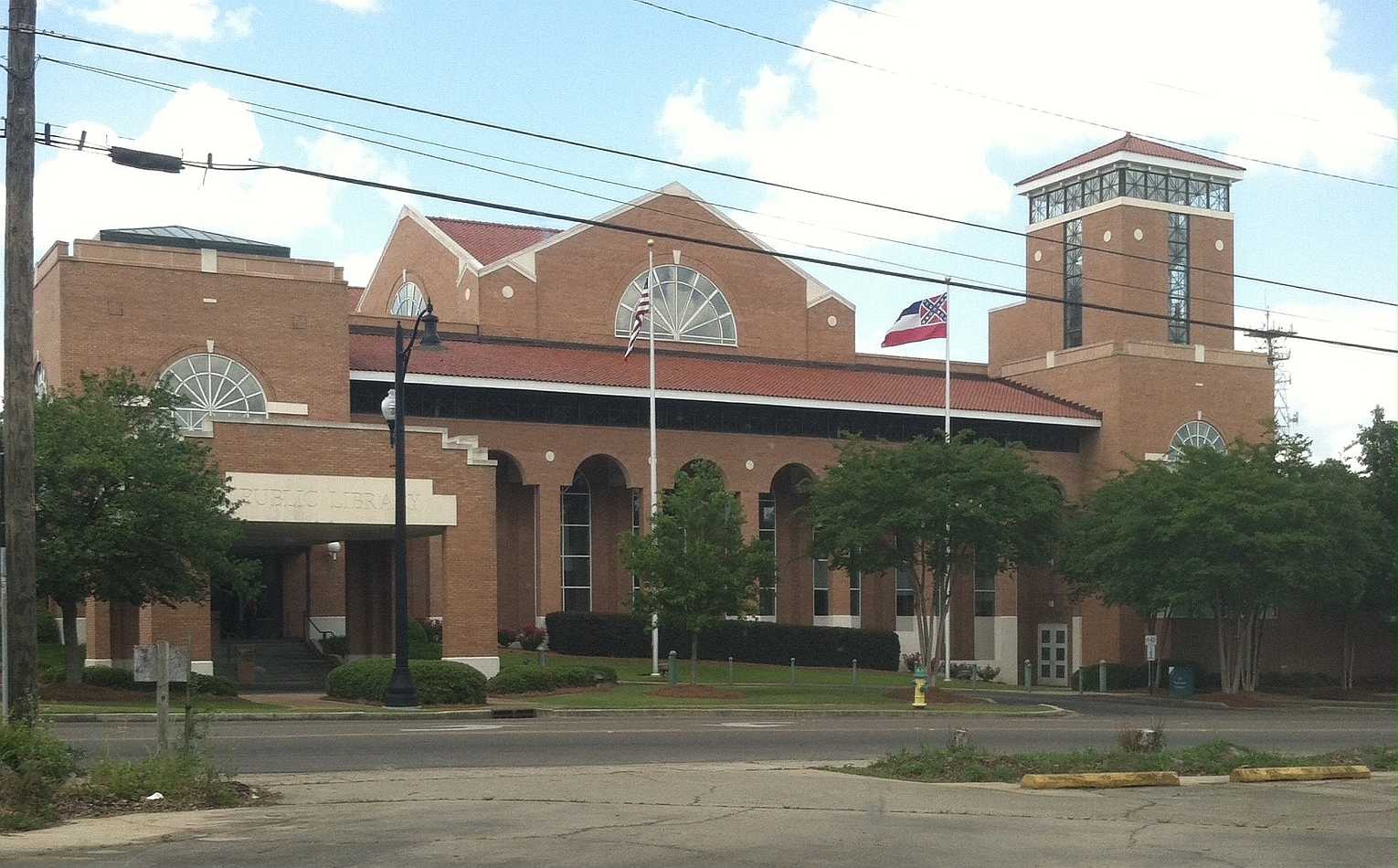 Forrest County Library - 329 Hardy Street Hattiesburg, MS 39401